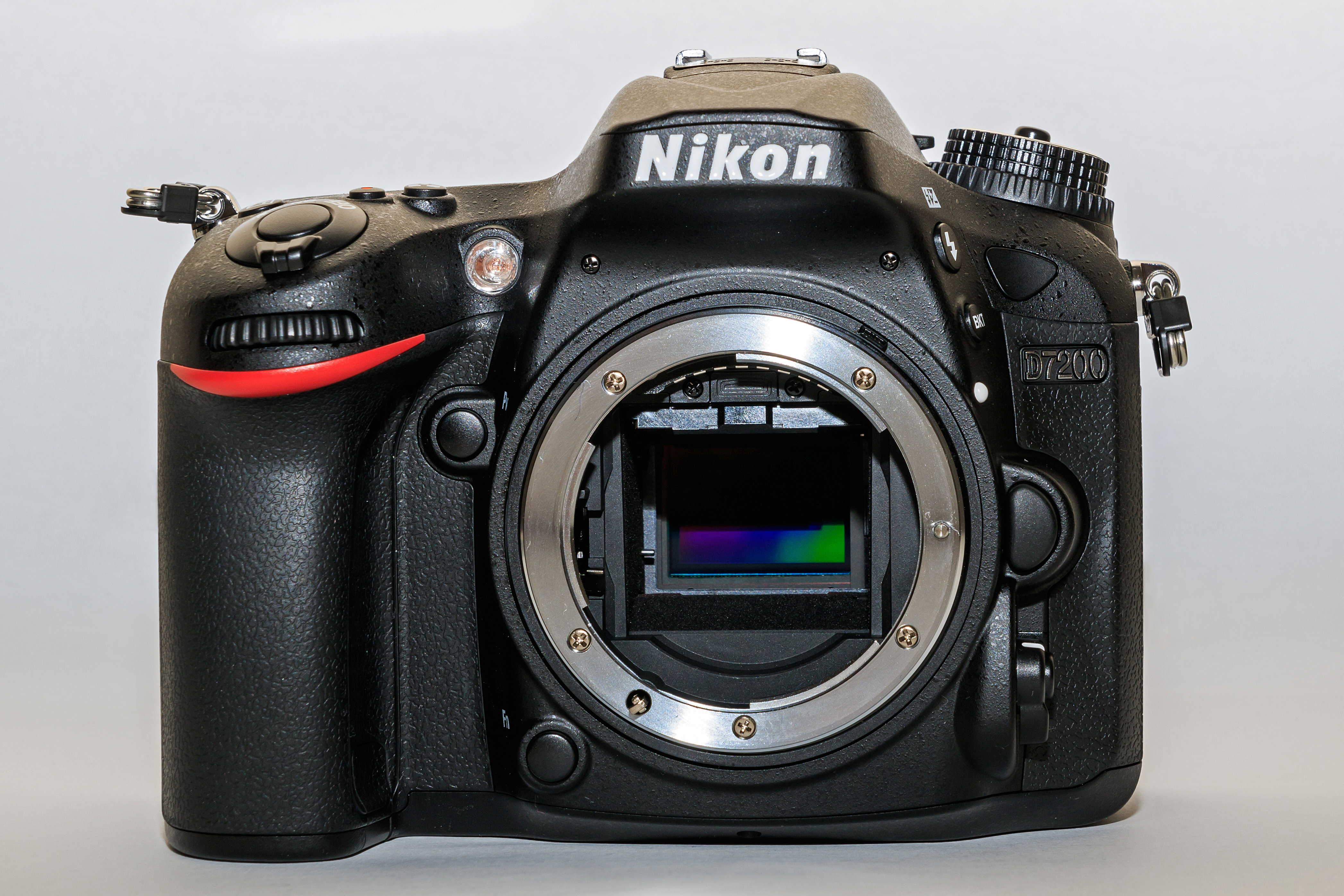 Nikon D7200